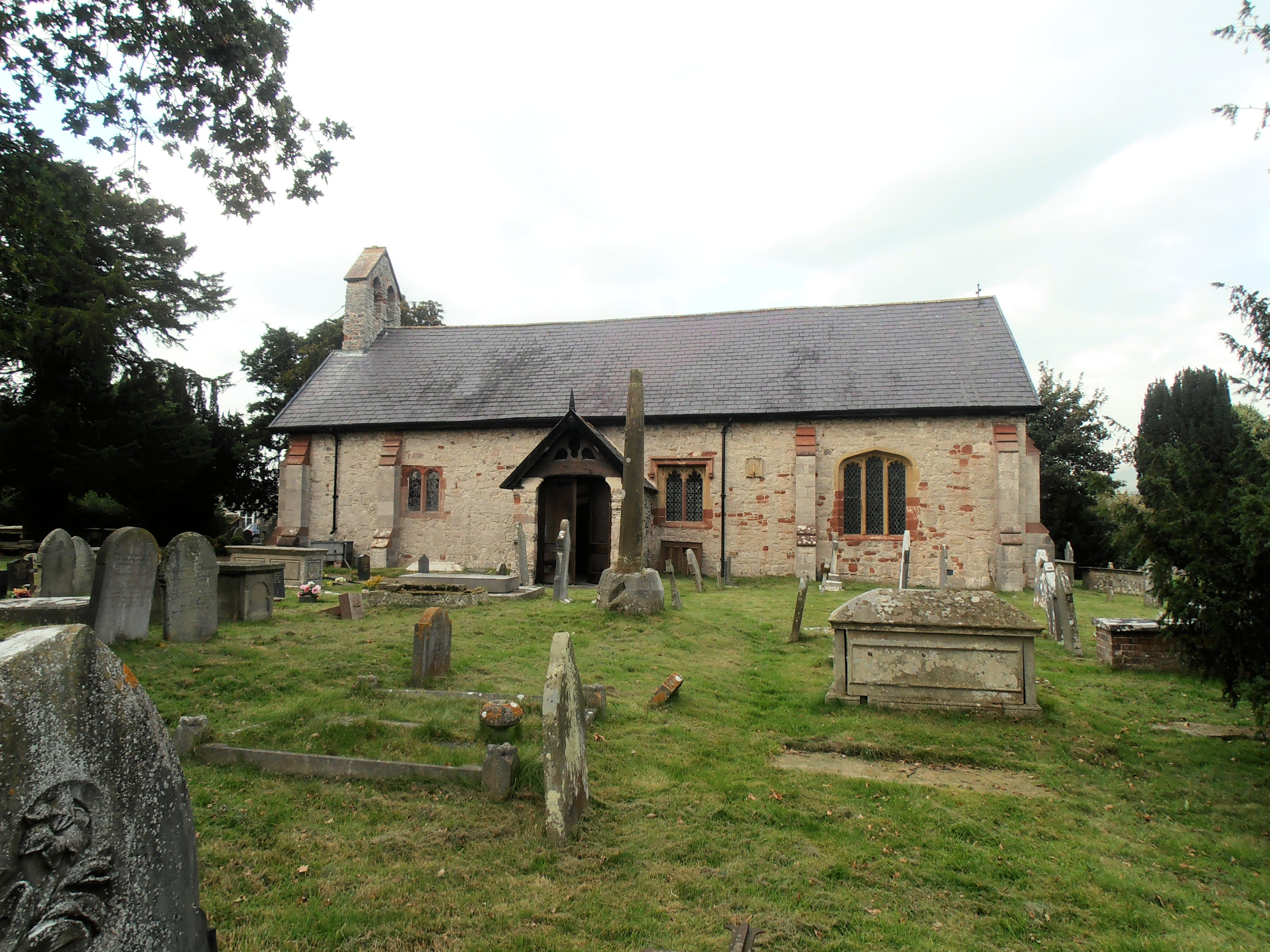 The Church of Saint Meugan, Llanrhudd, Ruthin, Denbighshire, North Wales. Listed building: Grade ll*